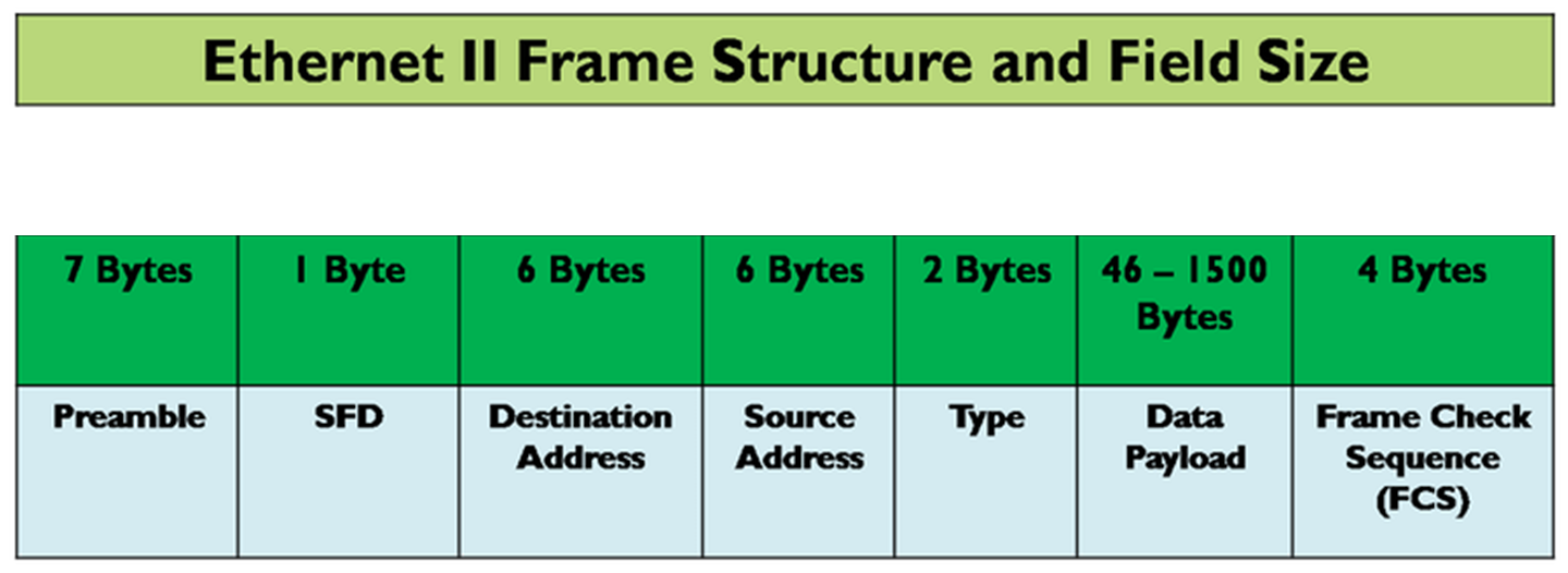 This file represents the structure and frame fields of Ethernet Frame. This article will helps the students of CCNA